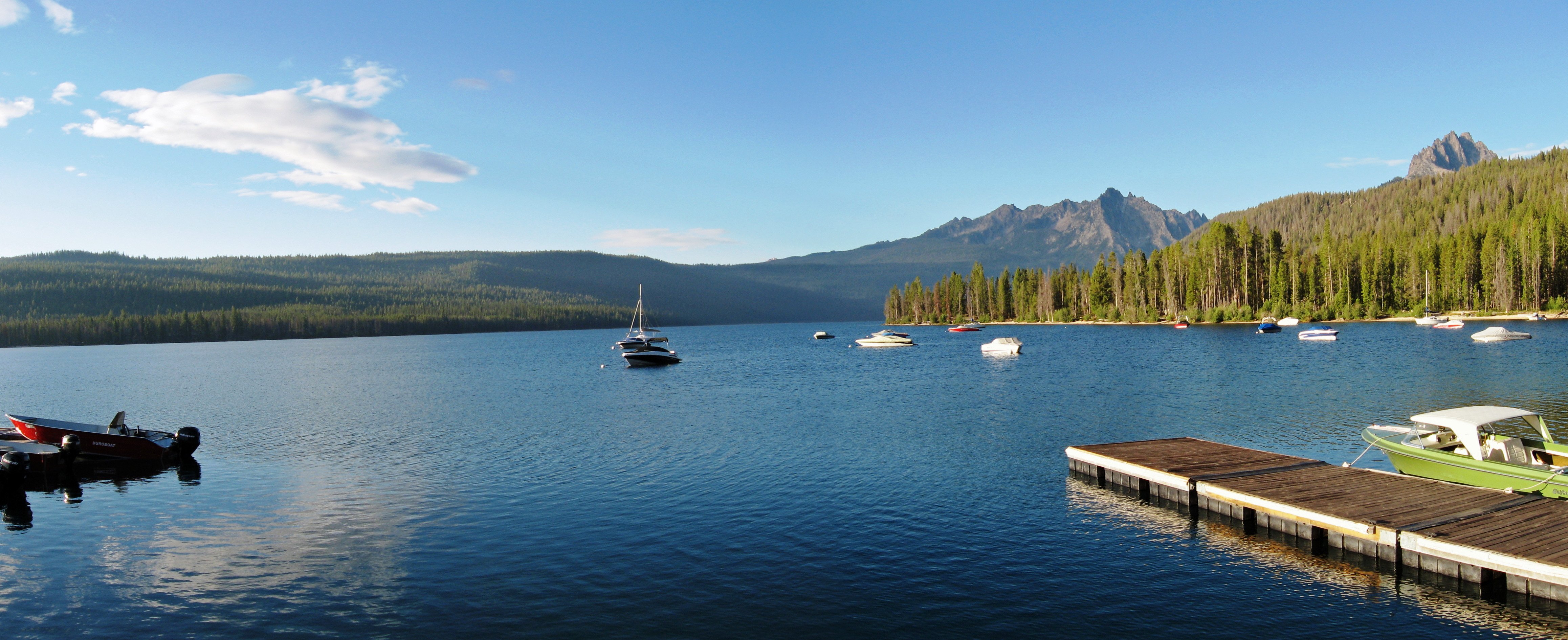 Redfish Lake in Sawtooth National Recreation Area / Sawtooth National Forest, Custer County, Idaho in the morning in August 2008